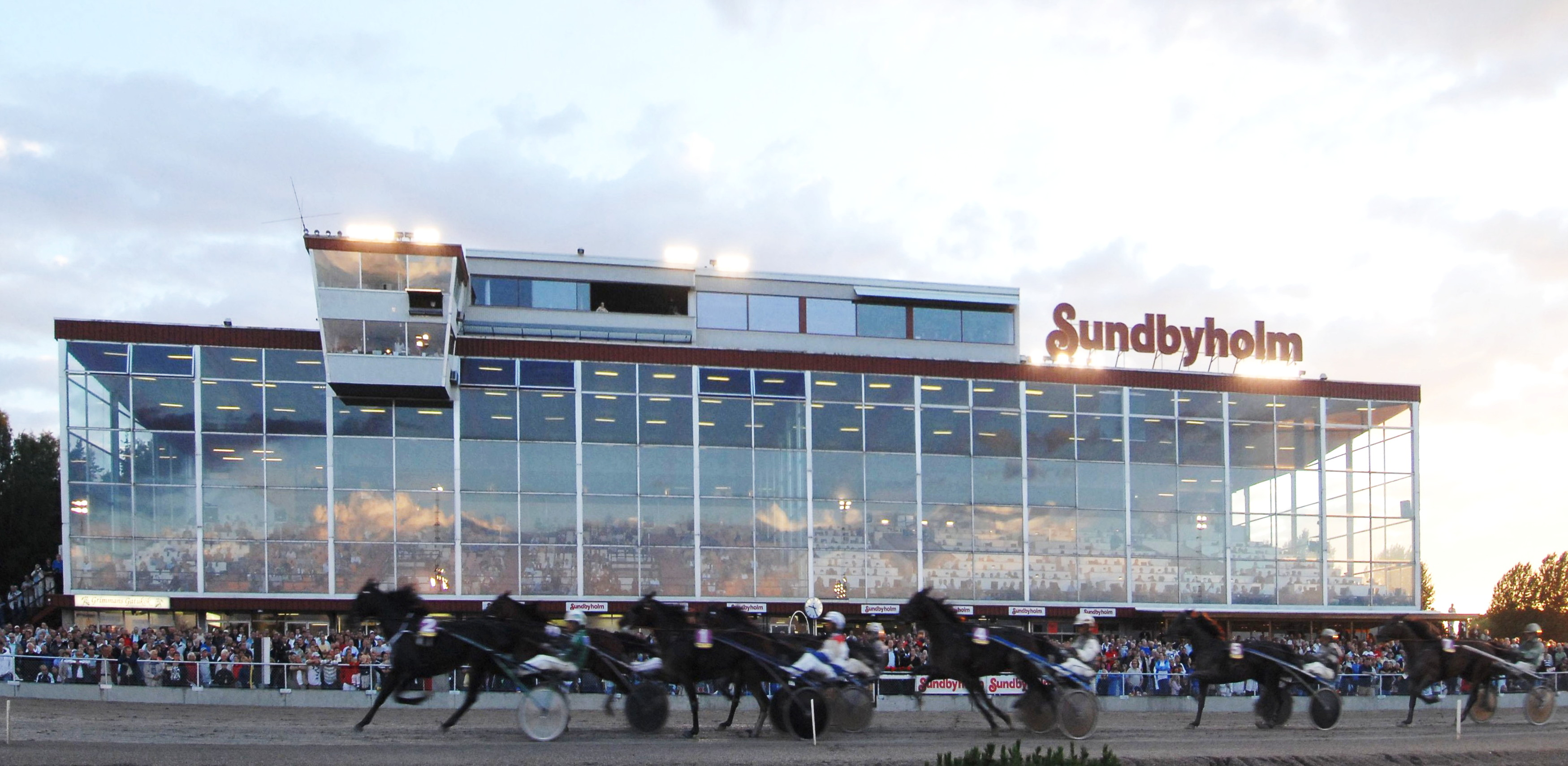 Harness racing track "Sundbyholm" in Eskilstuna Sweden.